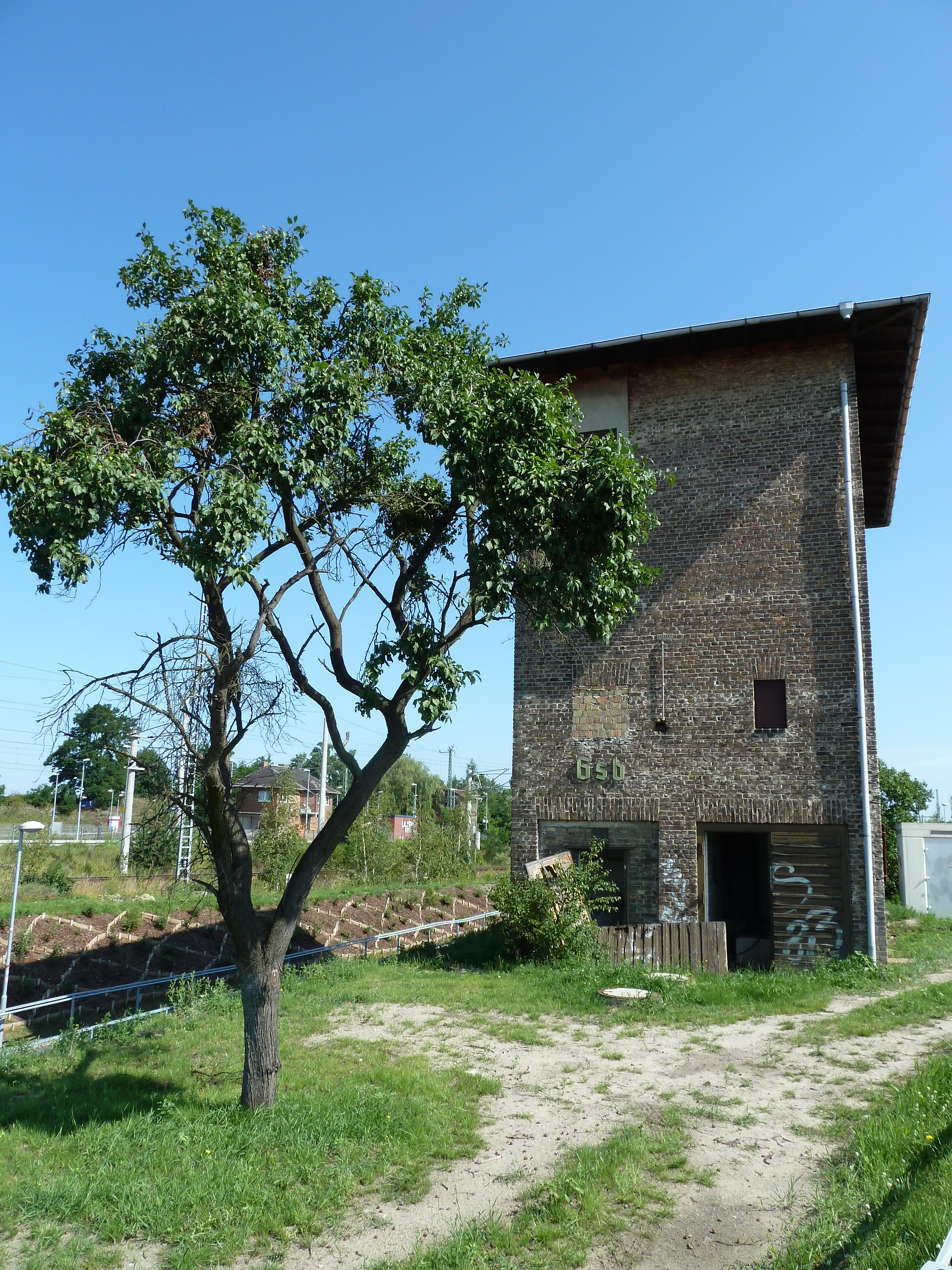 Bahnhof Großbeeren, former switch tower